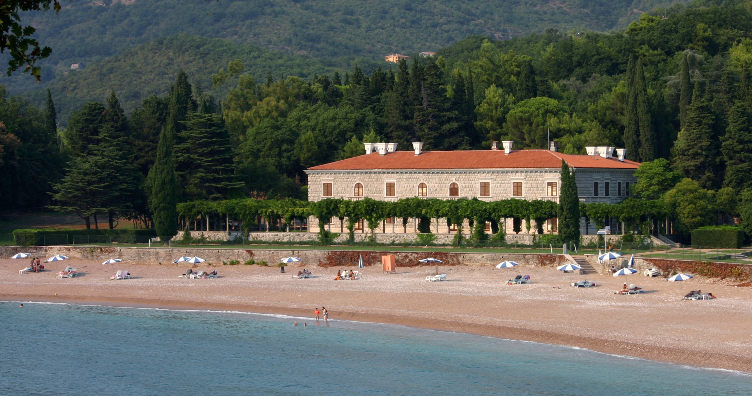 Villa Miločer, the former summer residence of Queen Marija Karadordevic (1900–1961) opposite the island of Sveti Stefan, Montenegro (at the moment functioning as a luxury resort)